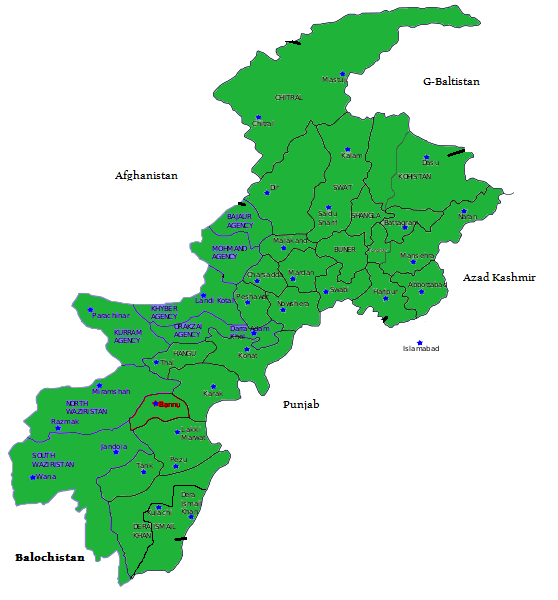 New map of Kpk province Pakistan after the merger of Fata, by Fata reforms, in it which was previously administrated by federal govt.